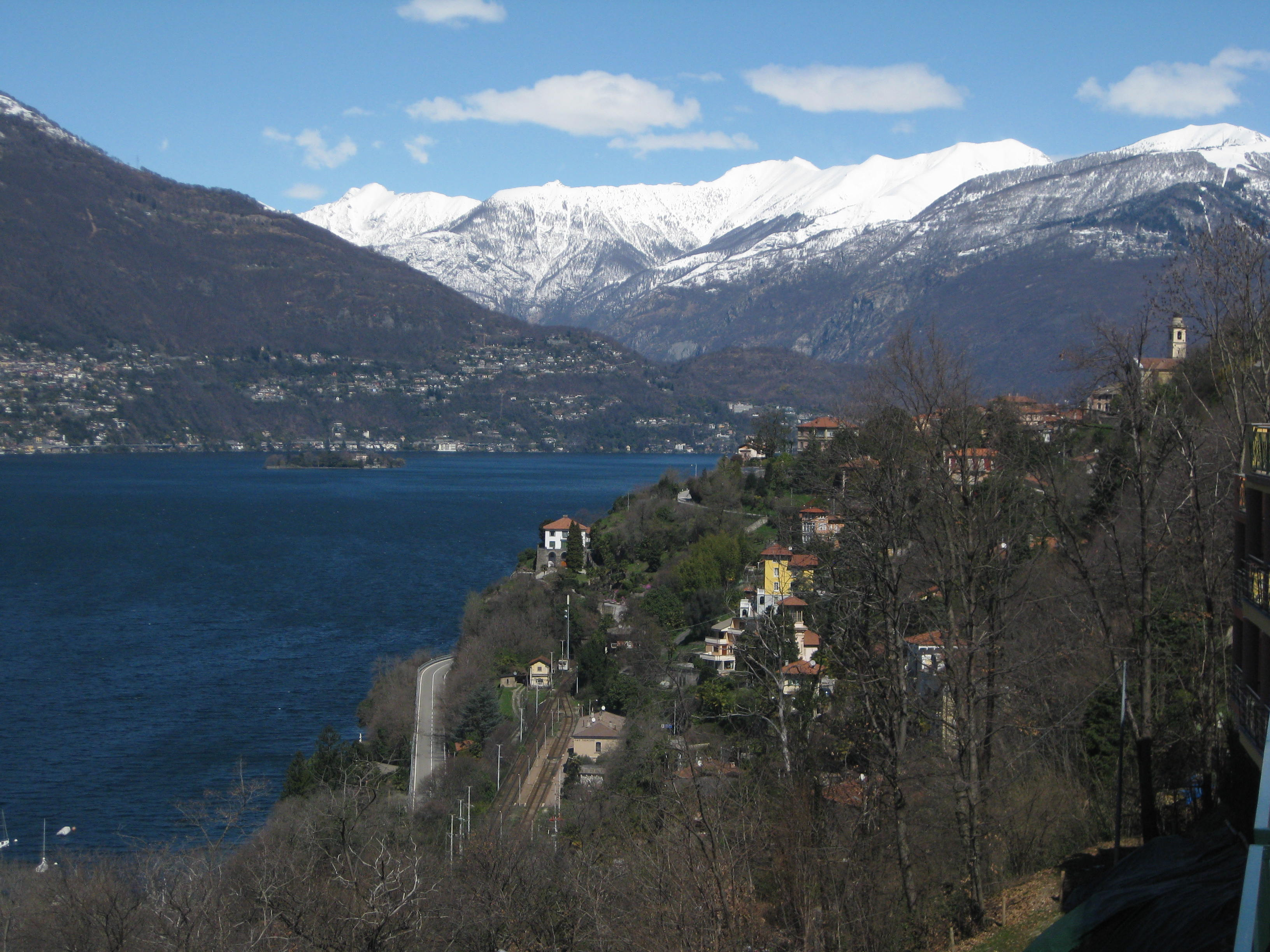 View to the north, Pino sulla Sponda del Lago Maggiore and train station Pino-Tronzano